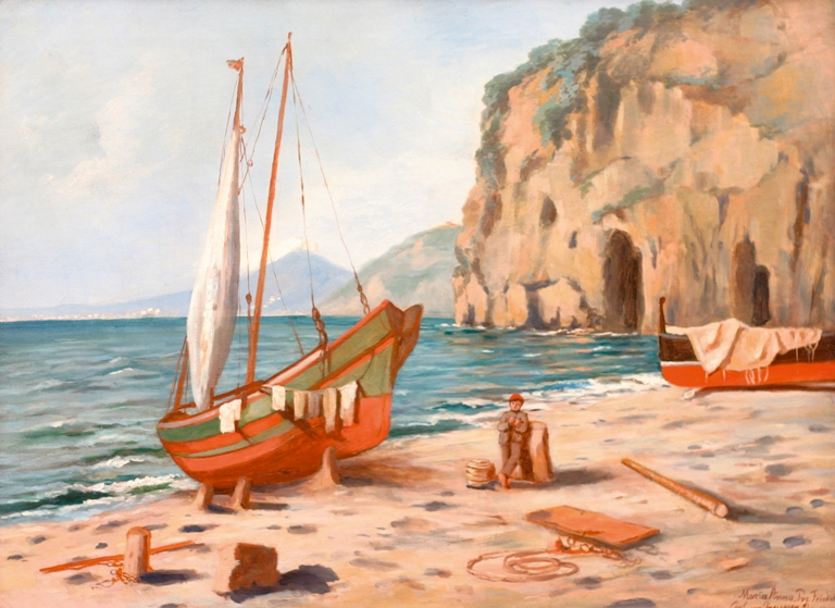 At bay by Ascanian princess Maria Anna of Anhalt-Dessau, oil on canvas, 60 × 82 cm